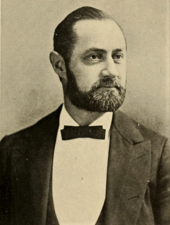 Portrait of recording pioneer Edward Issler published in "Men of Newark" by Schultz & Gasser in 1904.